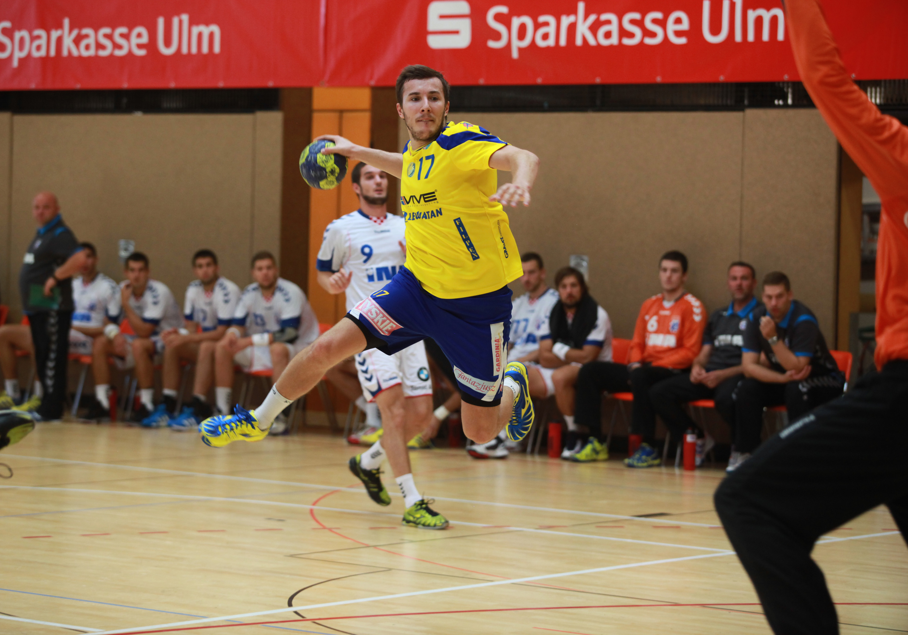 Manuel Štrlek, on August 17th, 2012 in Ehingen (Germany), during the Sparkassen Cup (formerly known as Schlecker Cup).